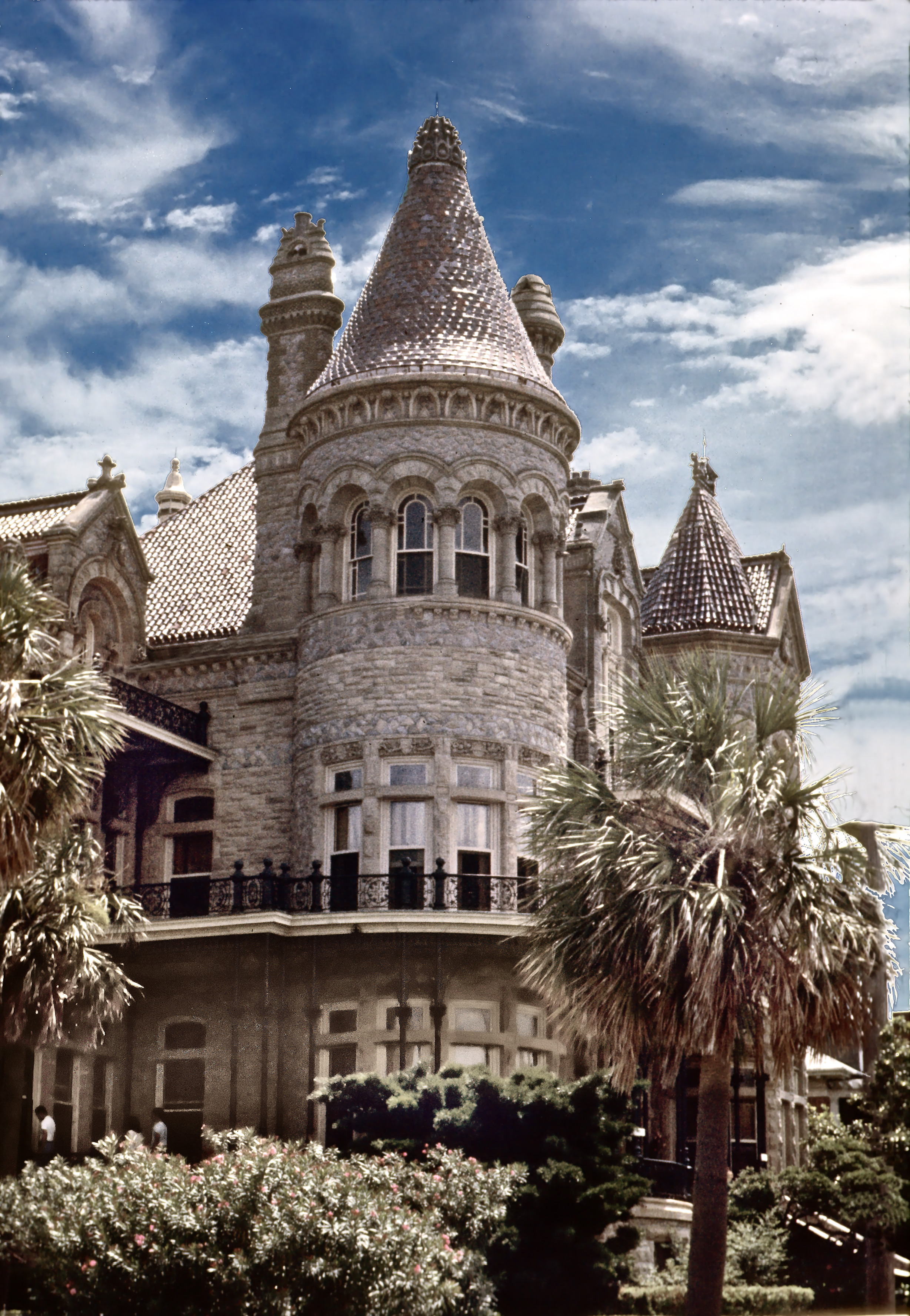 The Bishop's Palace in the East End Historic District of Galveston, Texas. The American Institute of Architects lists the home as one of the 100 most significant buildings in the United States, and the Library of Congress has classified it as one of the fourteen most representative Victorian structures in the nation.